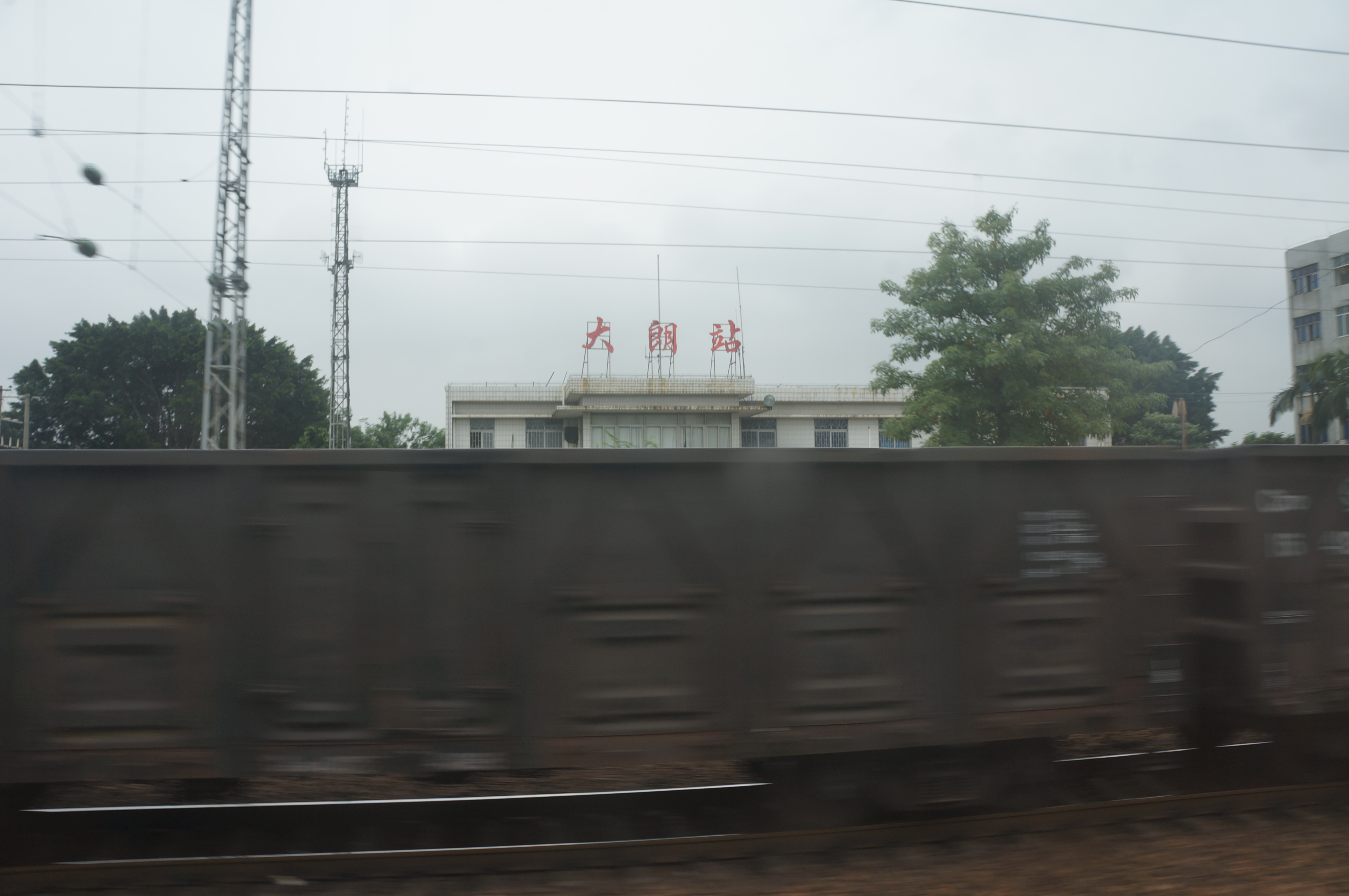 201609 Z99 passes Dalang Station, still don't where the Jianggaozhen Station is.